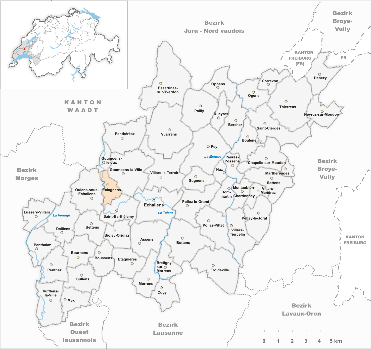 Municipality Eclagnens